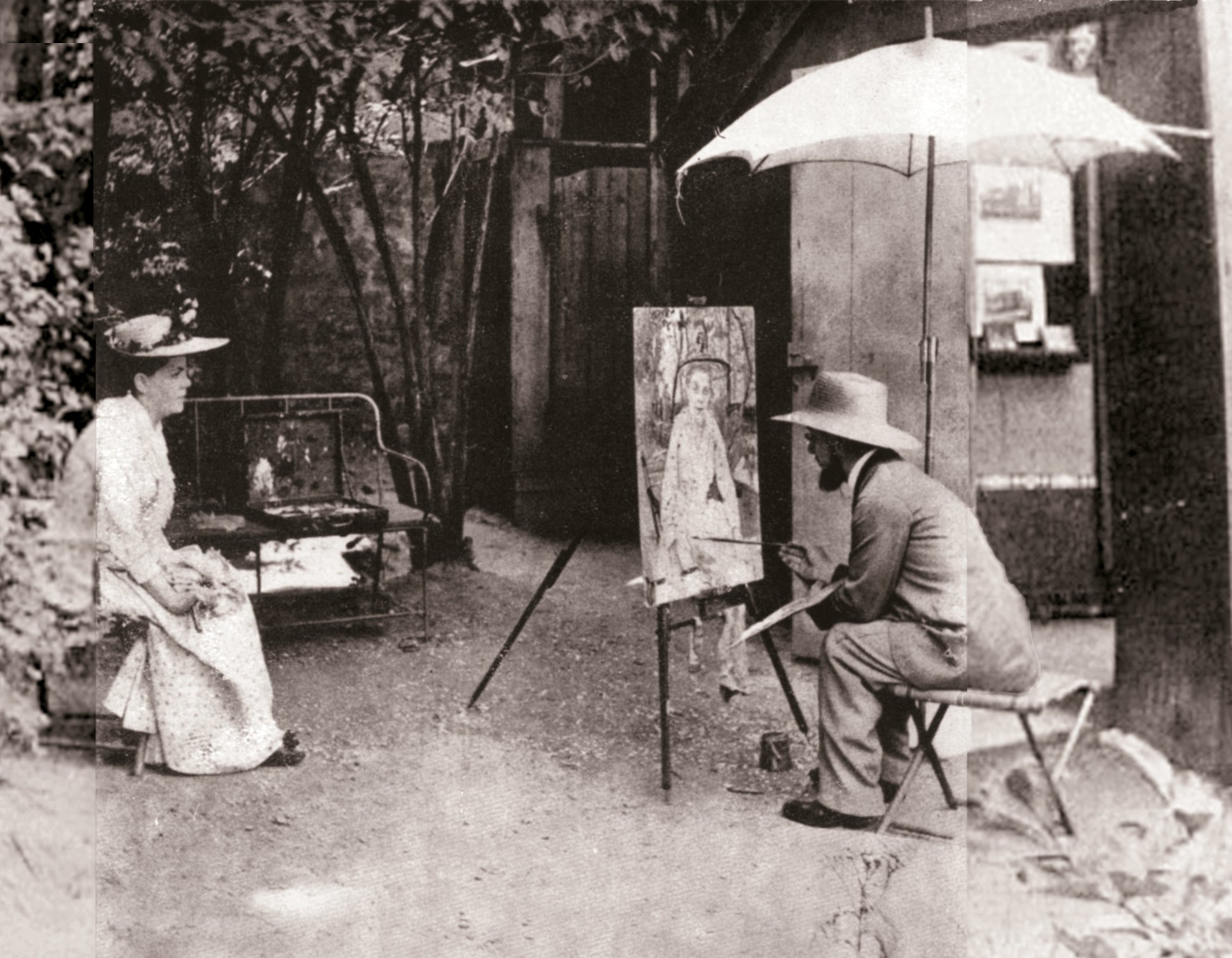 Henri de Toulouse-Lautrec paints portrait of deaf-mute Berta in the Père Forest garden in Montmartre